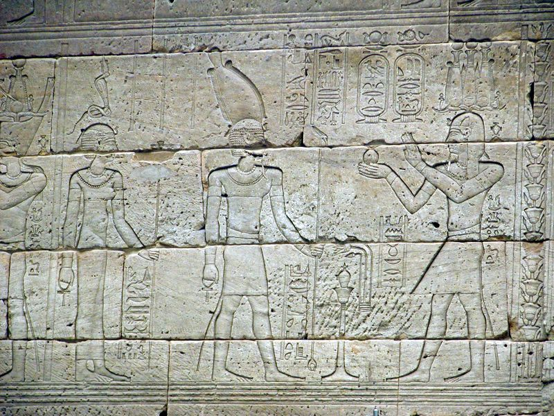 Reliefs from the Temple of Dendur in the Metropolitan Museum. This small Ancient Egyptian temple was once located in Nubia but the Egyptian government presented it as a gift to the U.S. in the 1960's in gratitude for aiding in the salvage of other Egyptian monuments (including Abu Simbel) in Nubia due to the Aswan dam project.